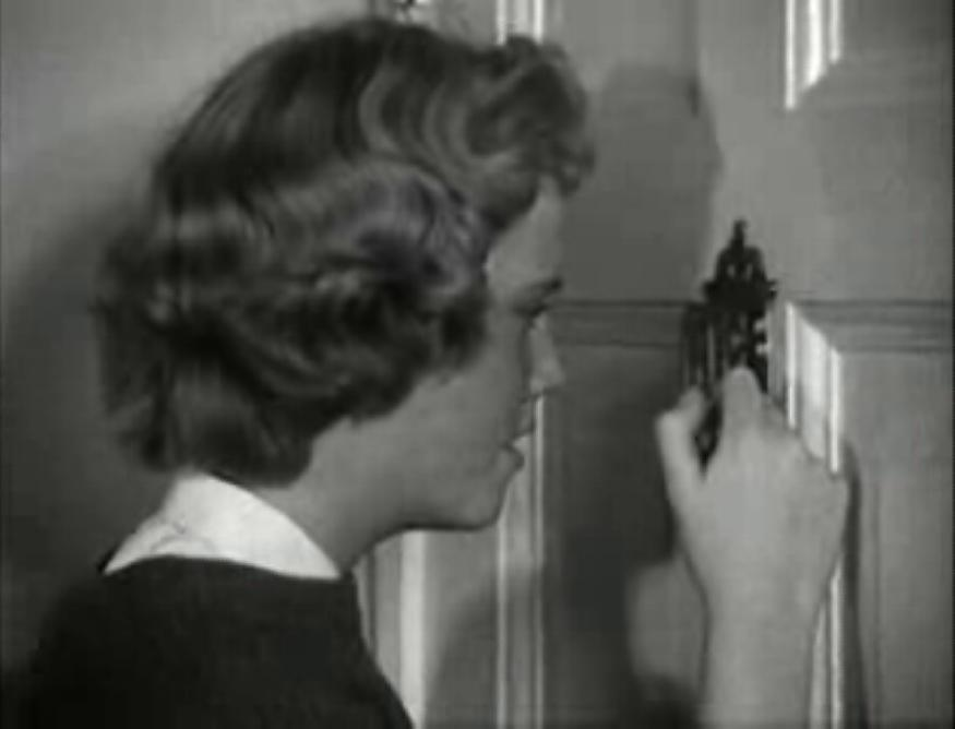 "Barbara is babysitting. When a stranger is in front of the door, she does not let him in, but tells him to go to the neighboors". Screenshot from "Girls Beware" (1961)